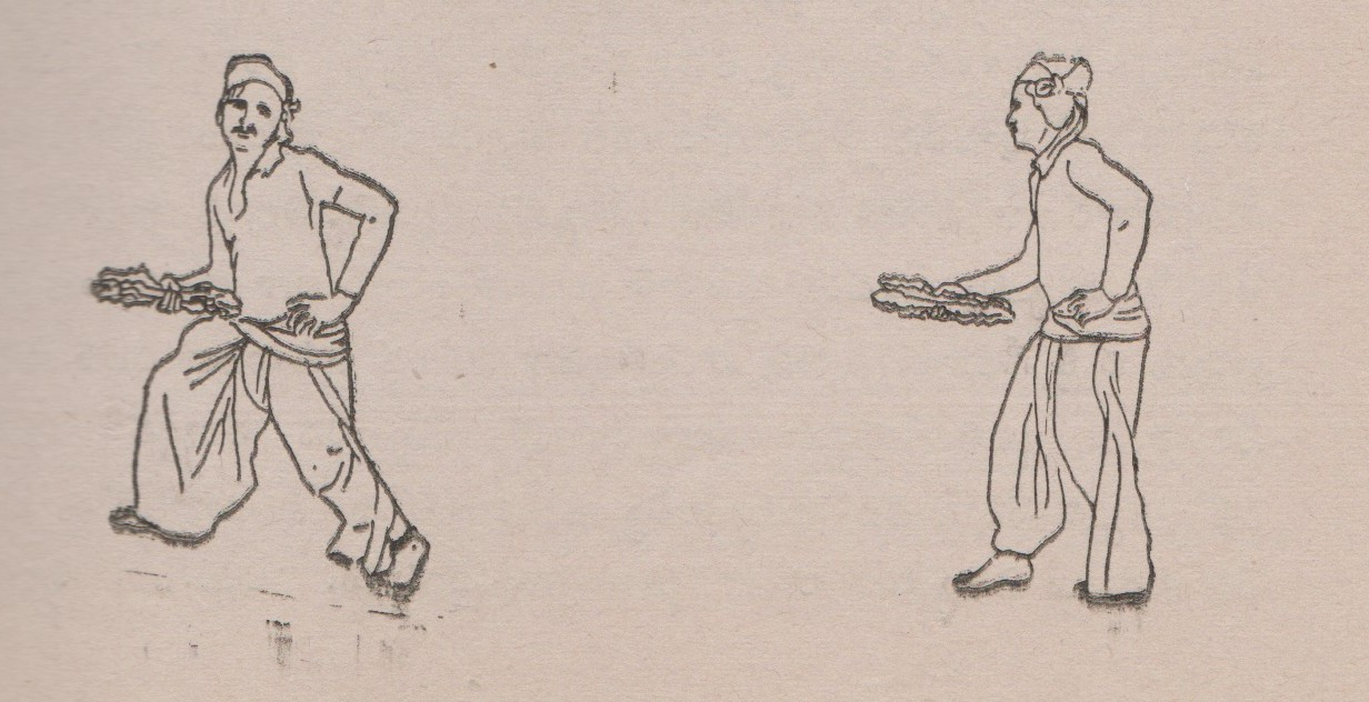 Chekka Bhajana or "Wooden Plank Bhajan" is a form of folk dance from Andhra Pradesh.